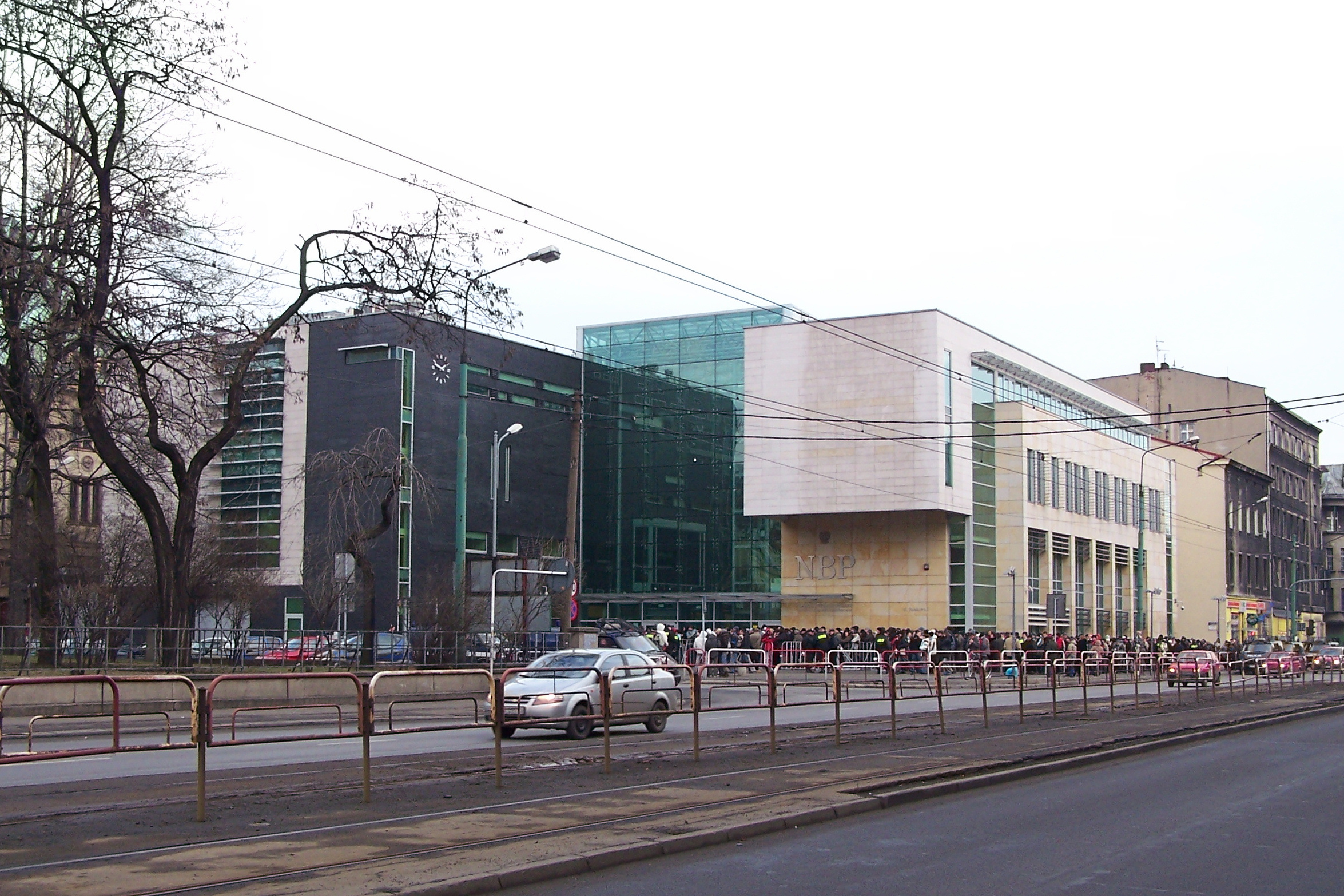 NBP bank in Katowice (Bankowa street).